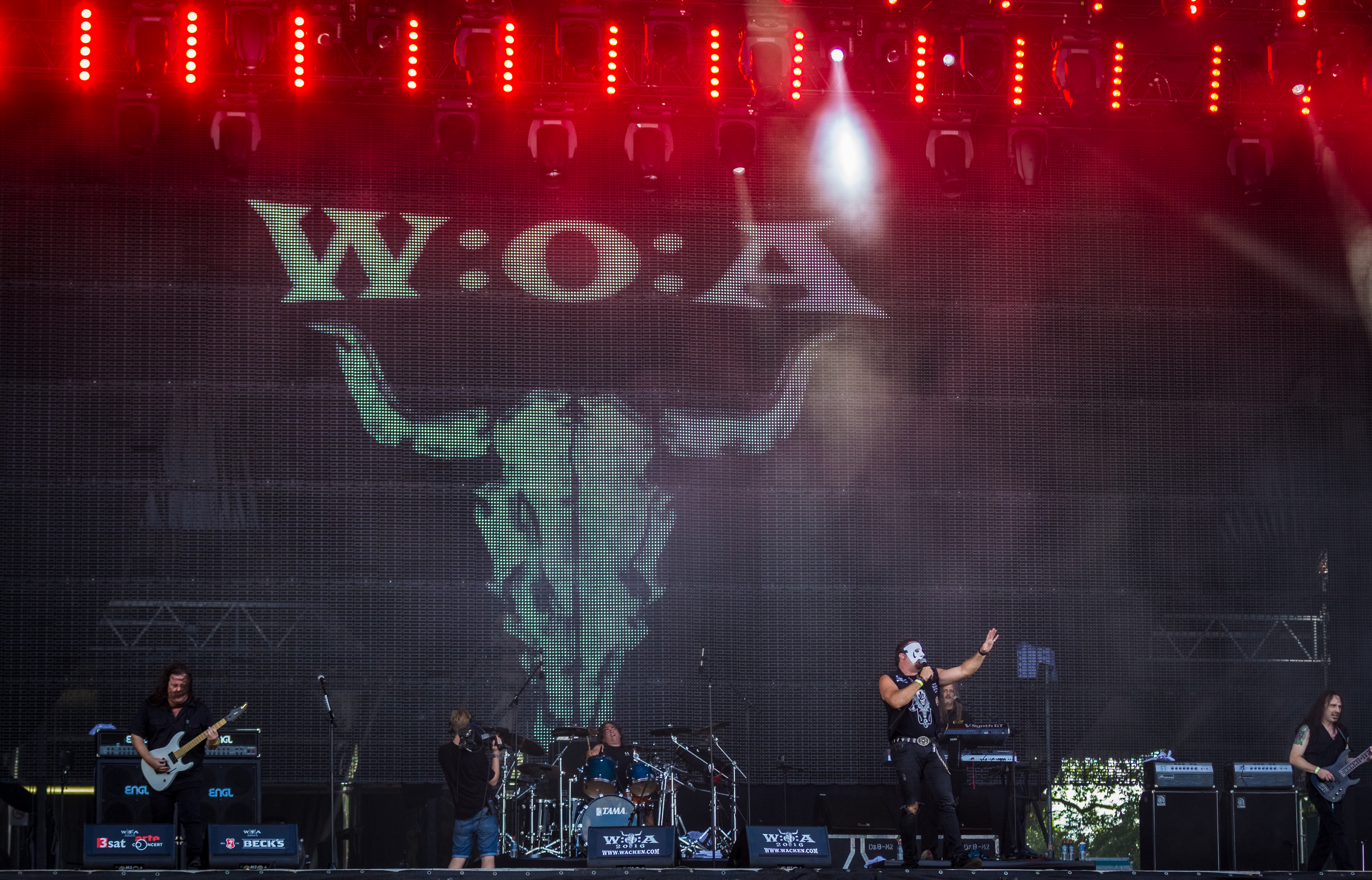 Symphony X - Wacken Open Air 2016